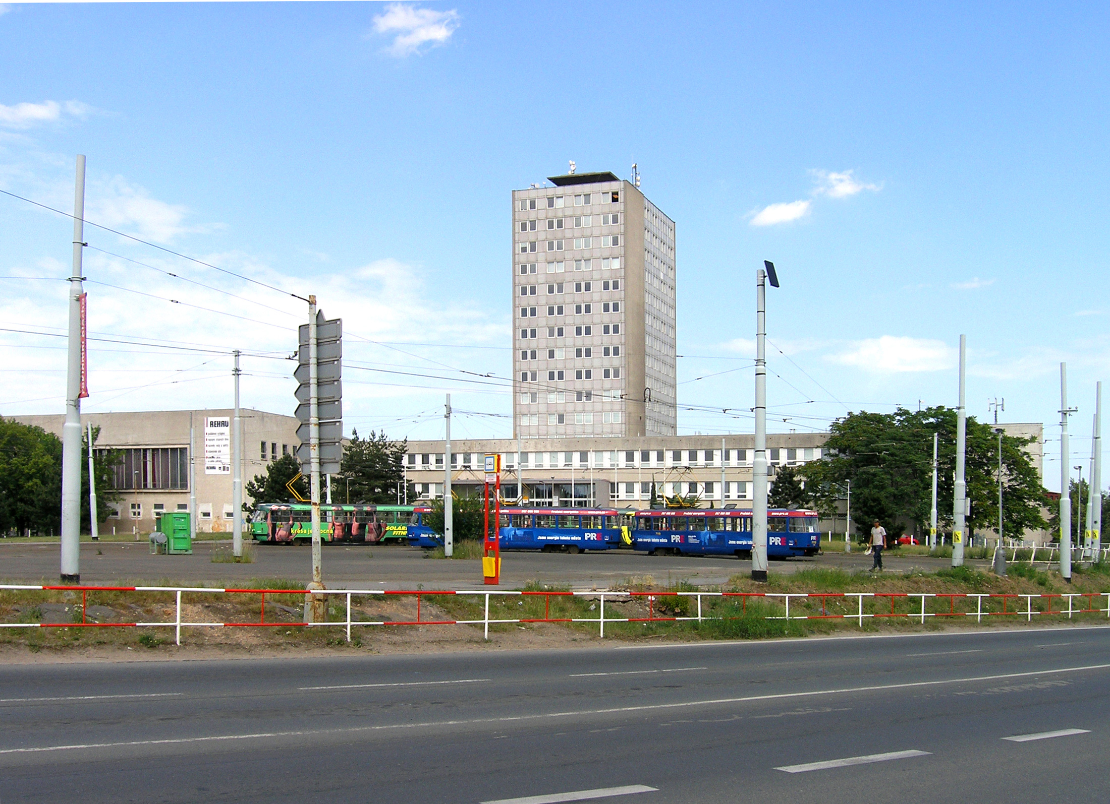 Tram loop and Constructional secondary school at local part Jarov at Hrdlořezy, Prague